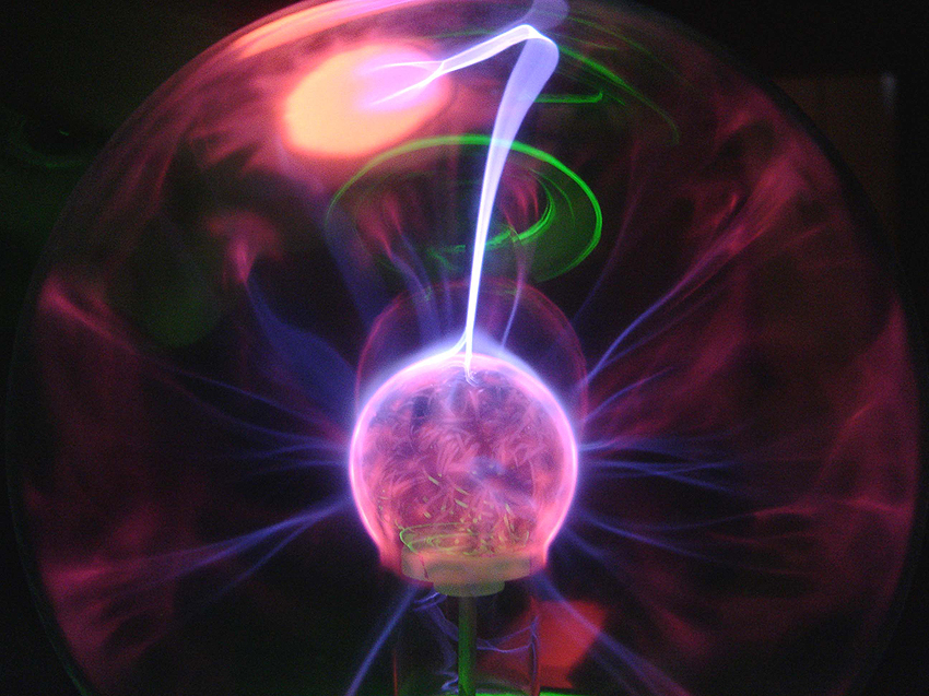 Me playing with a plasma ball and a camera